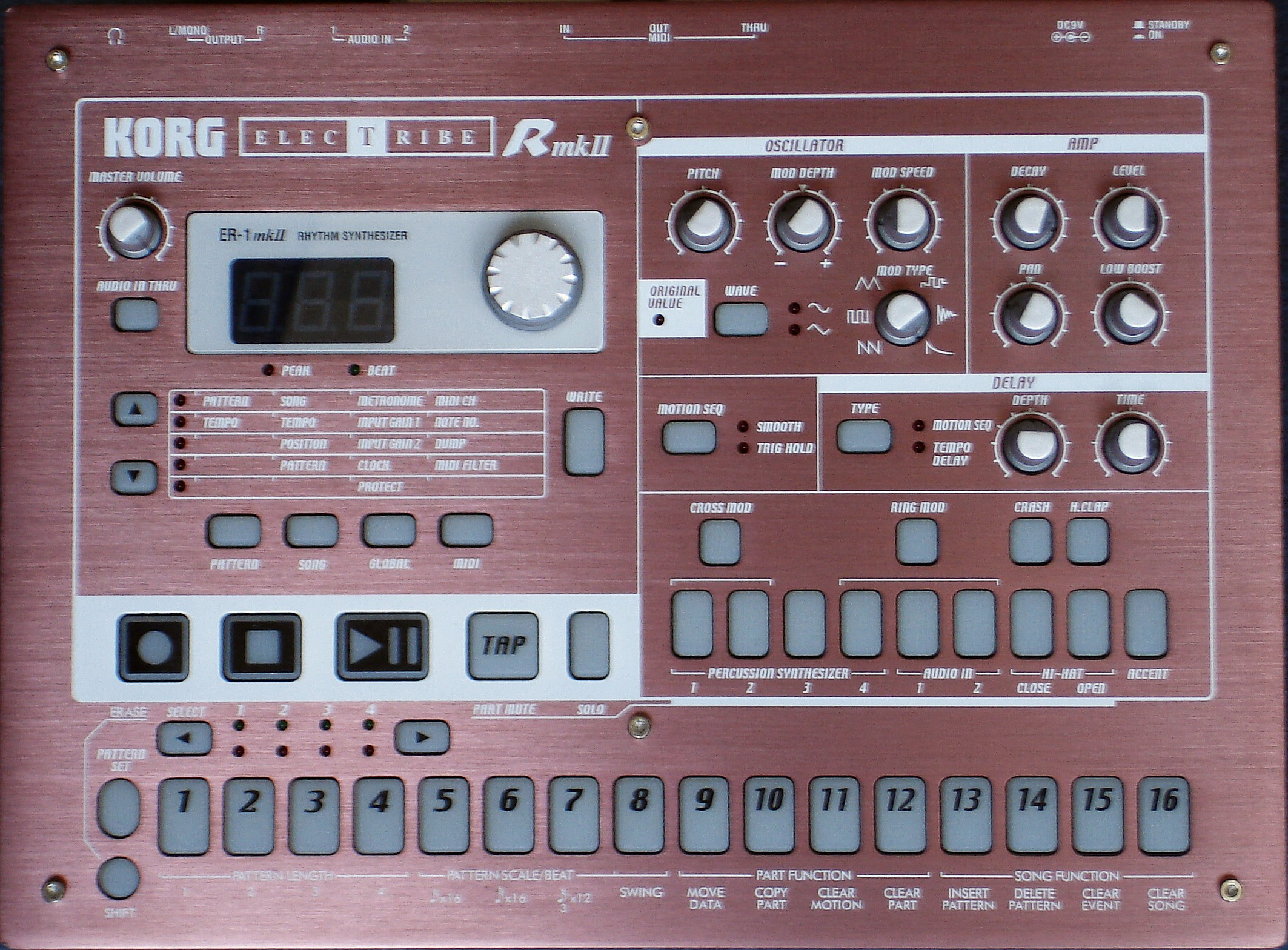 Korg Electribe R mkII electronic drum machine